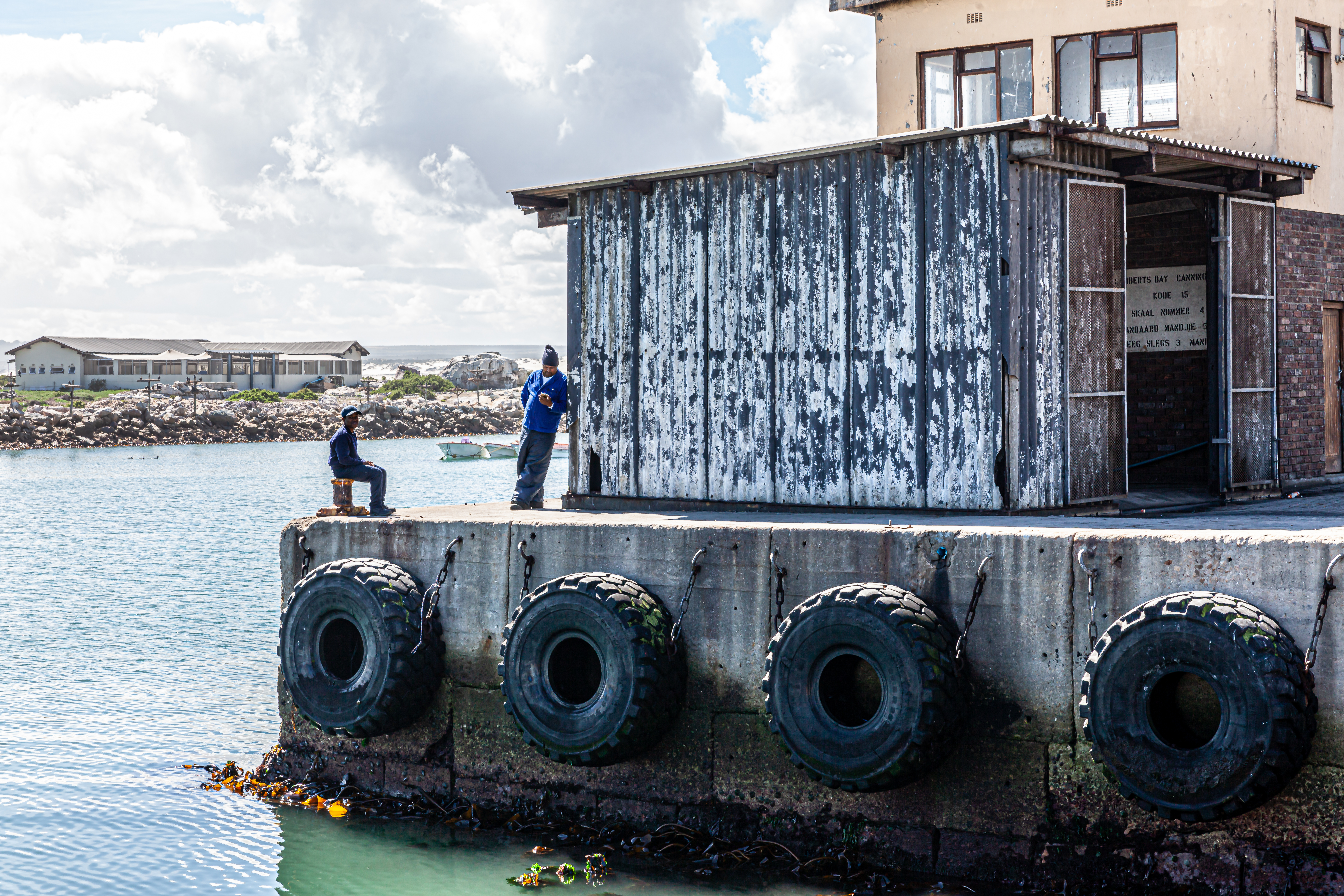 The marina in lamberst baai in South Africa This is an image with the theme "Africa on the Move or Transport" from: South Africa